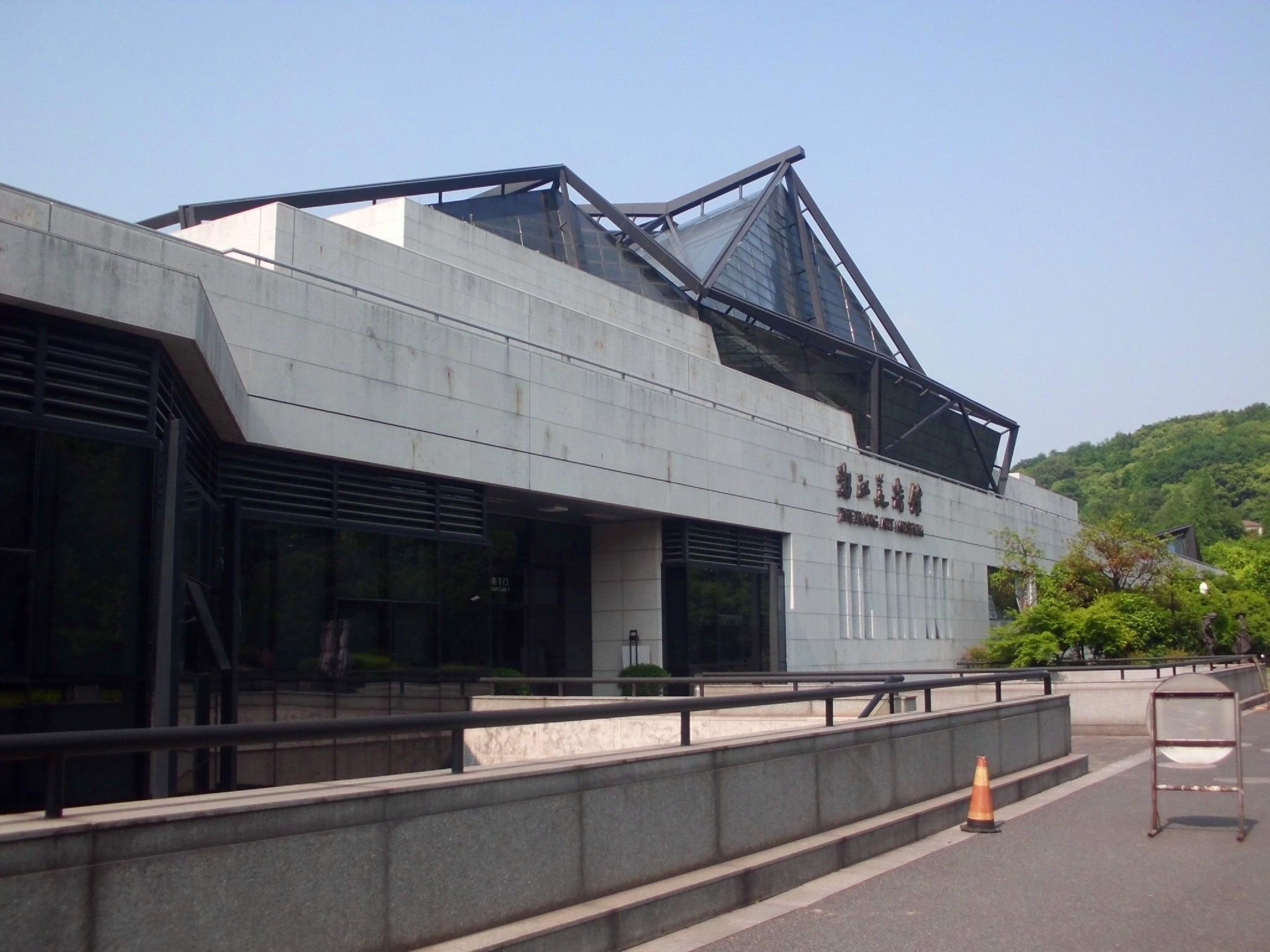 Zhejiang Art Museum